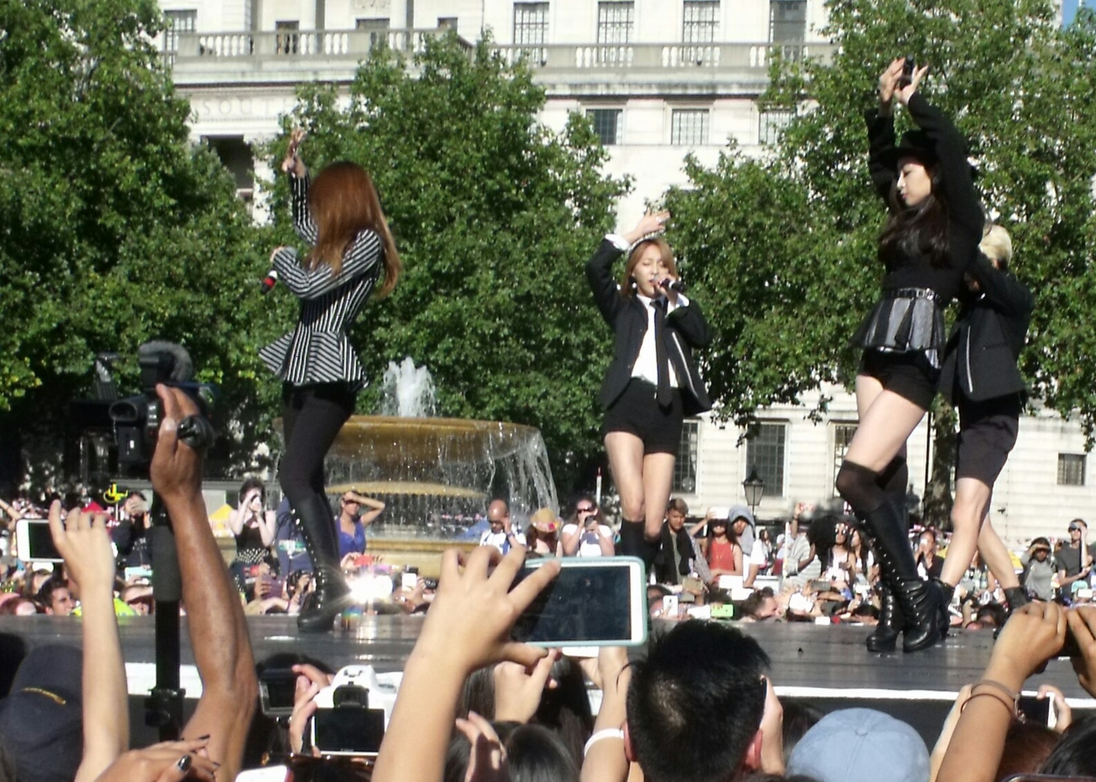 South Korean band f(x) performing in Trafalgar Square duringbthe inaugural London Korea Festival